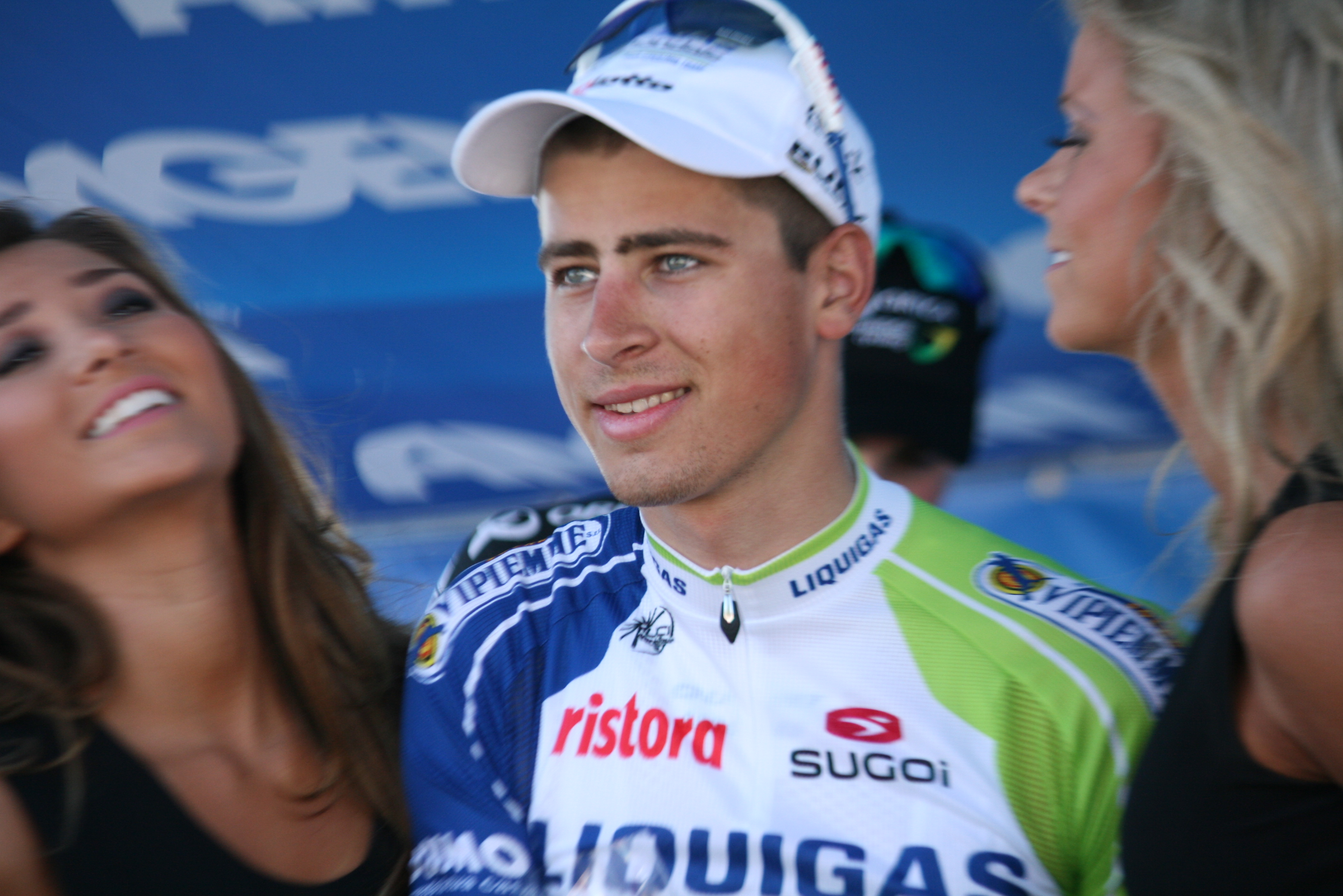 Peter Sagan, Tour of California 2012